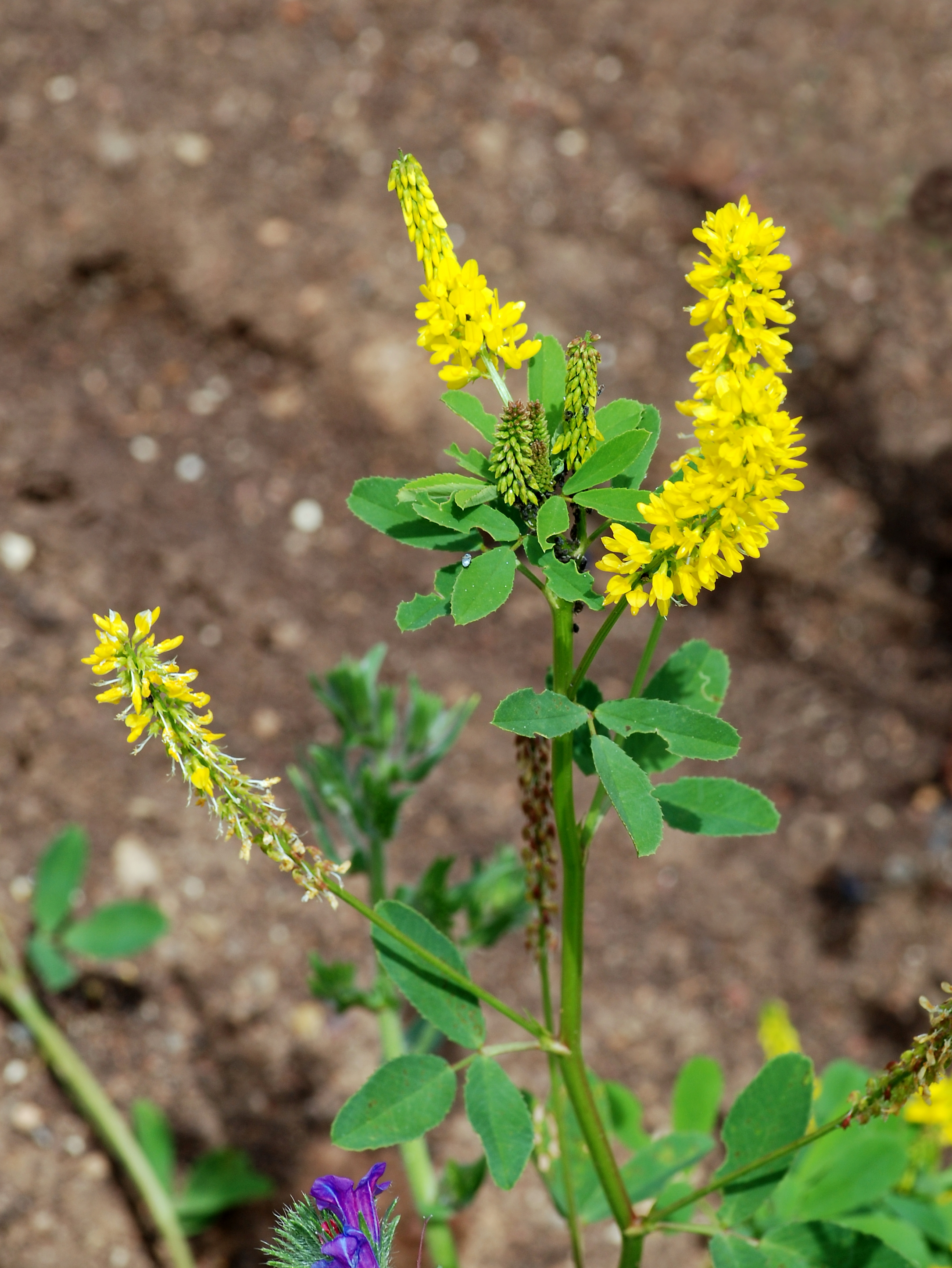 Melilot (Melilotus cf. officinalis)